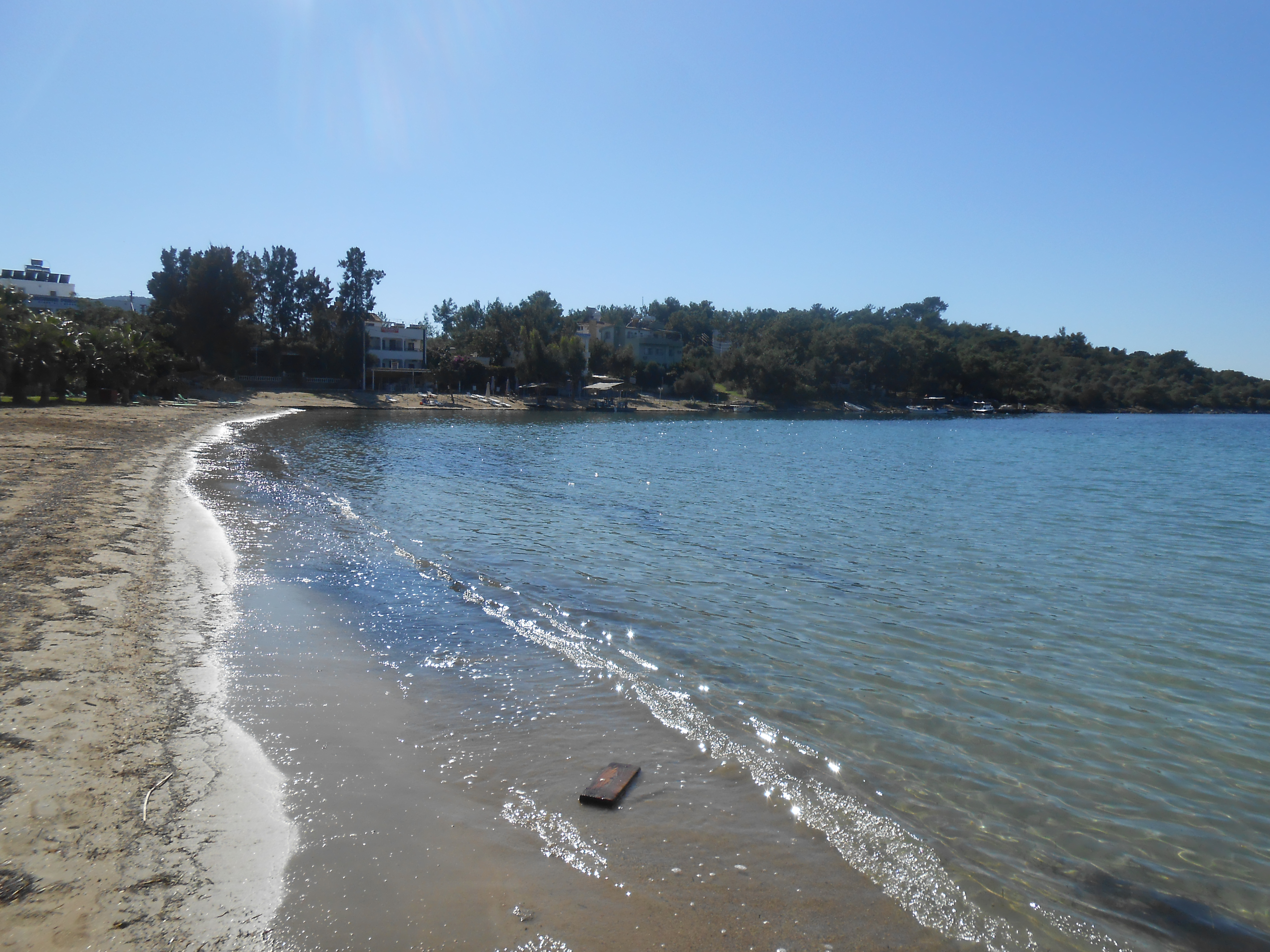 Zeytinlikuyu Beach